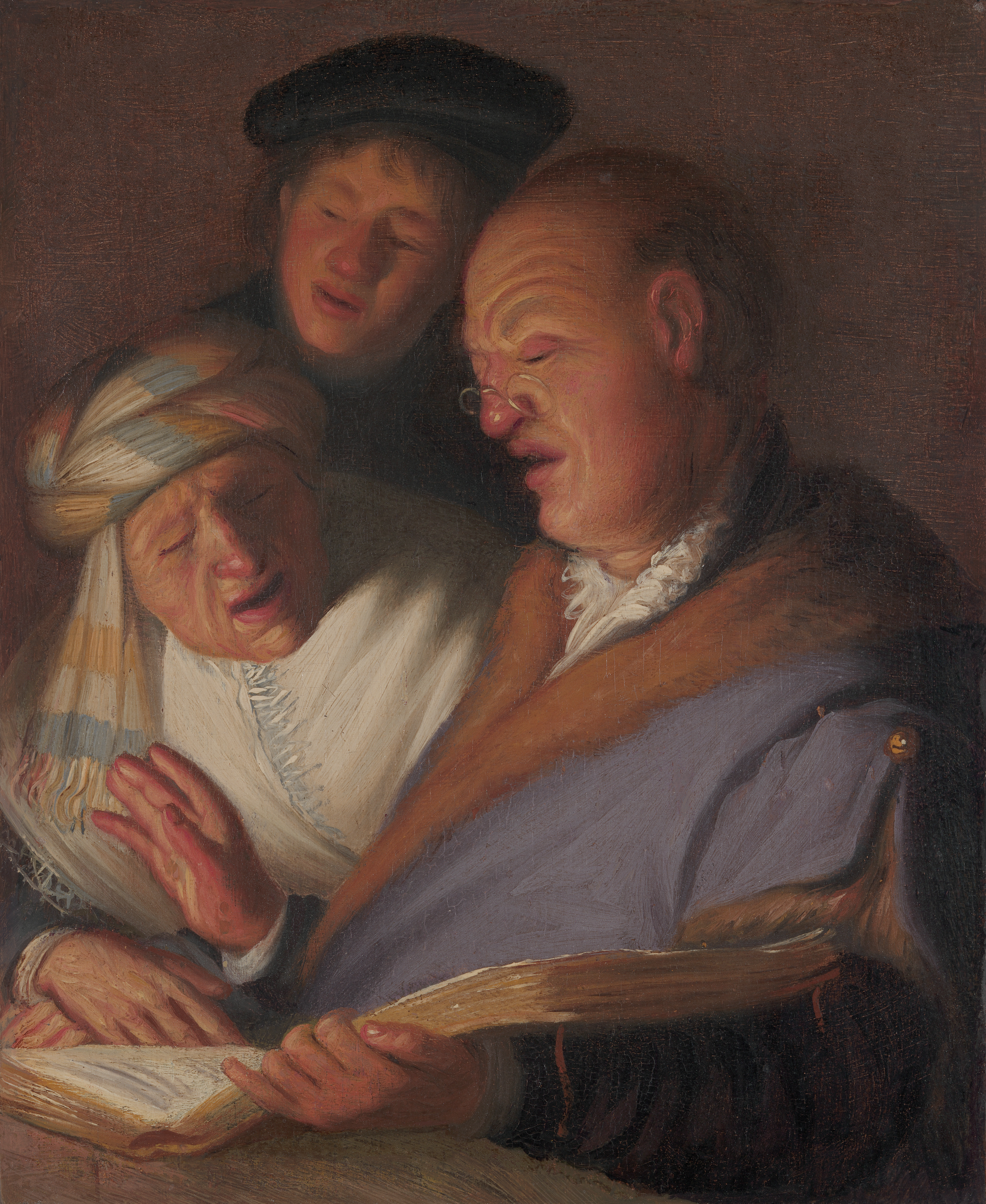 Hearing oil on panel 21,6 x 17,8 cm 1624 - 1625